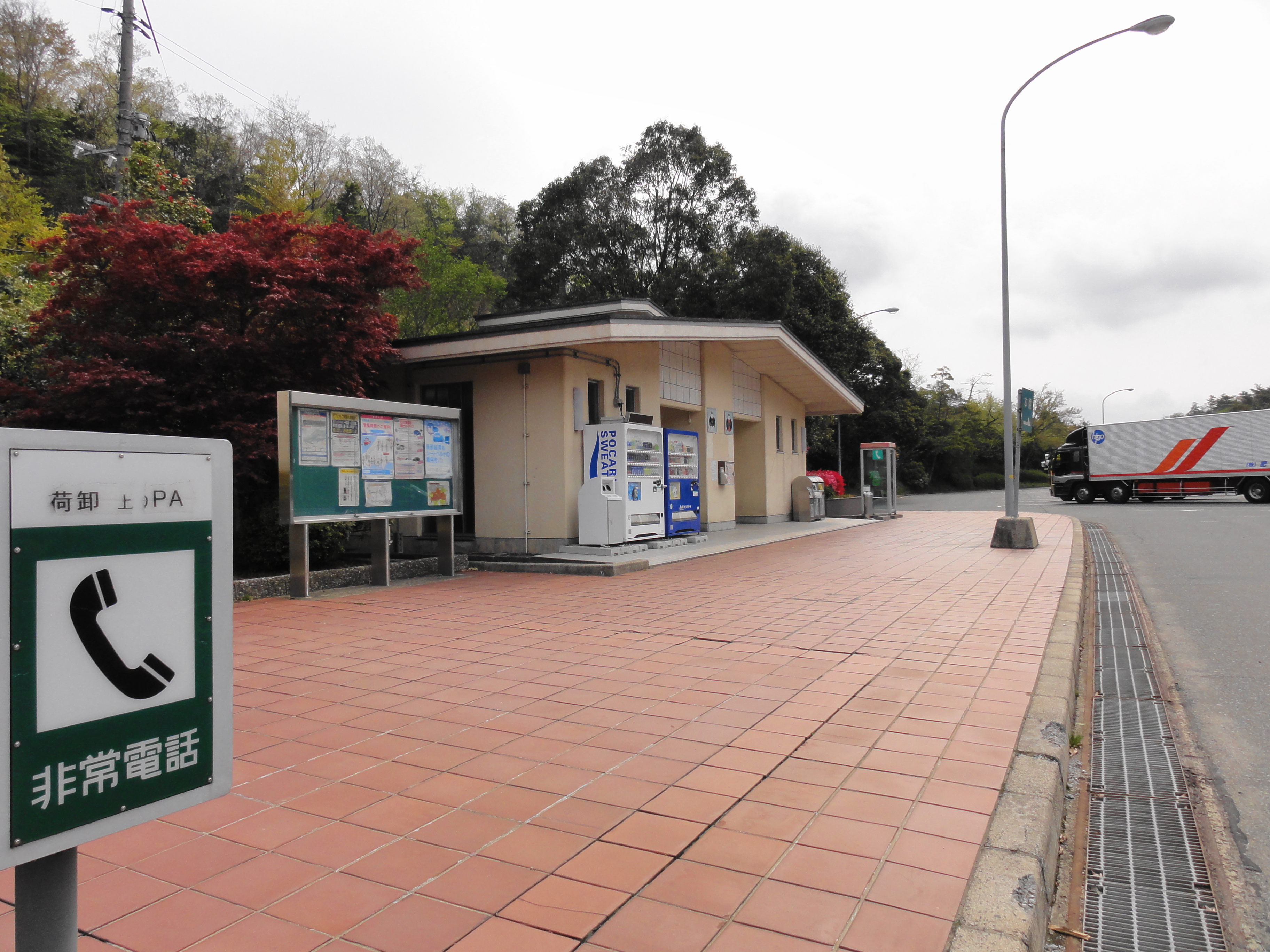 Nioroshi-touge Parking Area,Yamaguchi prefecture,Japan